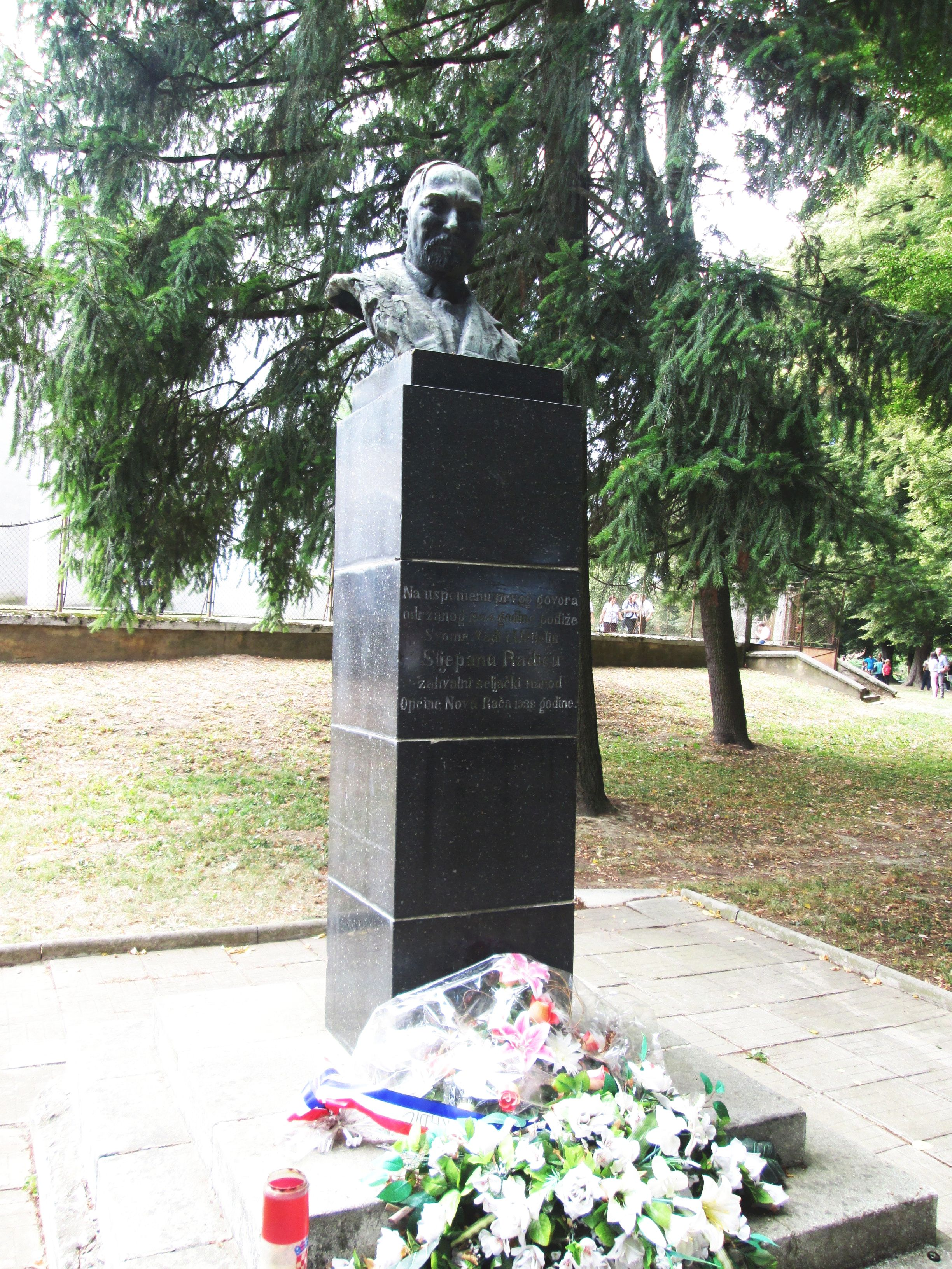 Monument of Croatian poltician in Nova Rača, Croatia, work by Antun Augustinčić